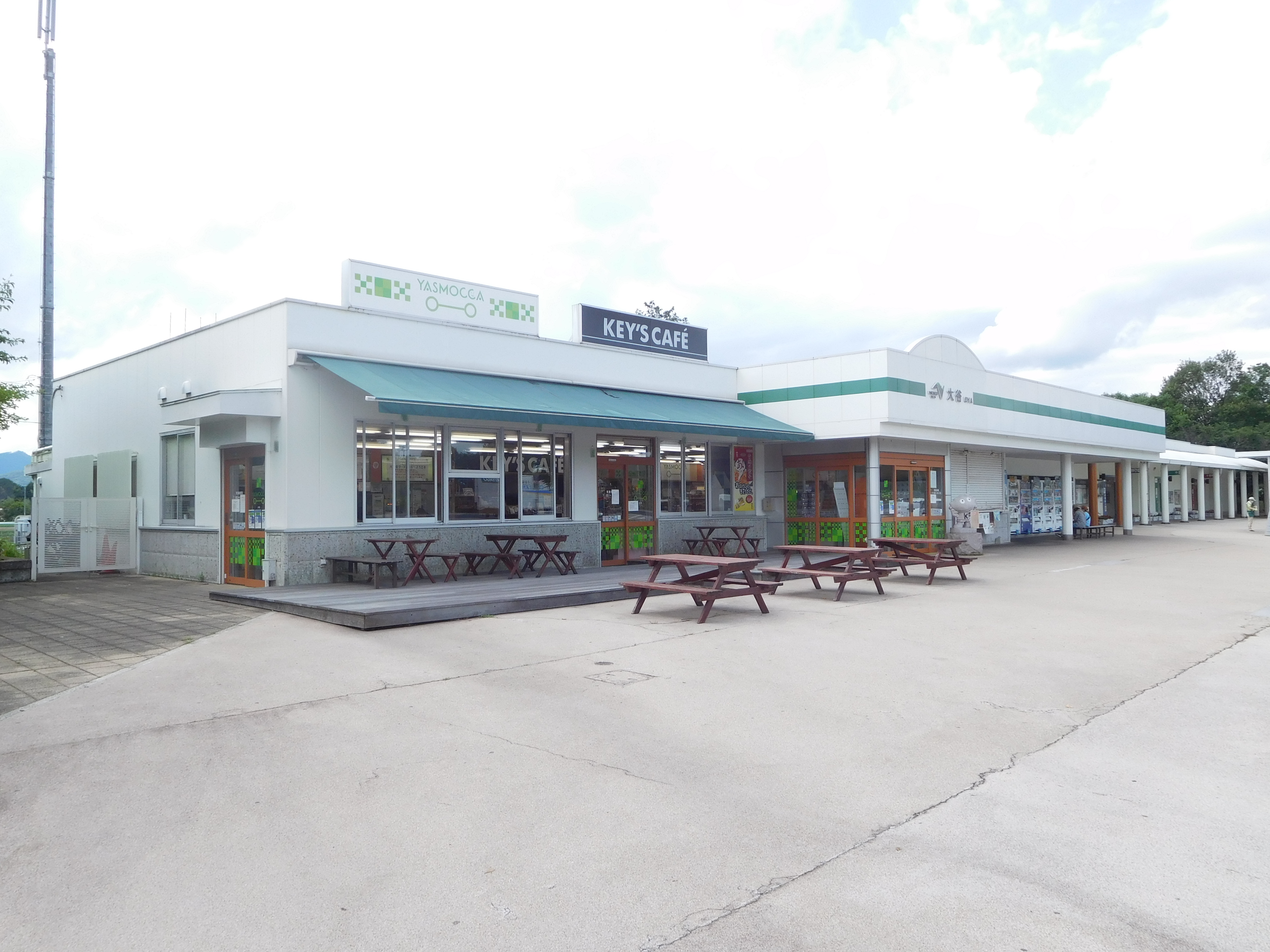 This is Down Side of Oya Parking Area on the Tohoku Expressway in Utsunomiya, Tochigi, Japan.